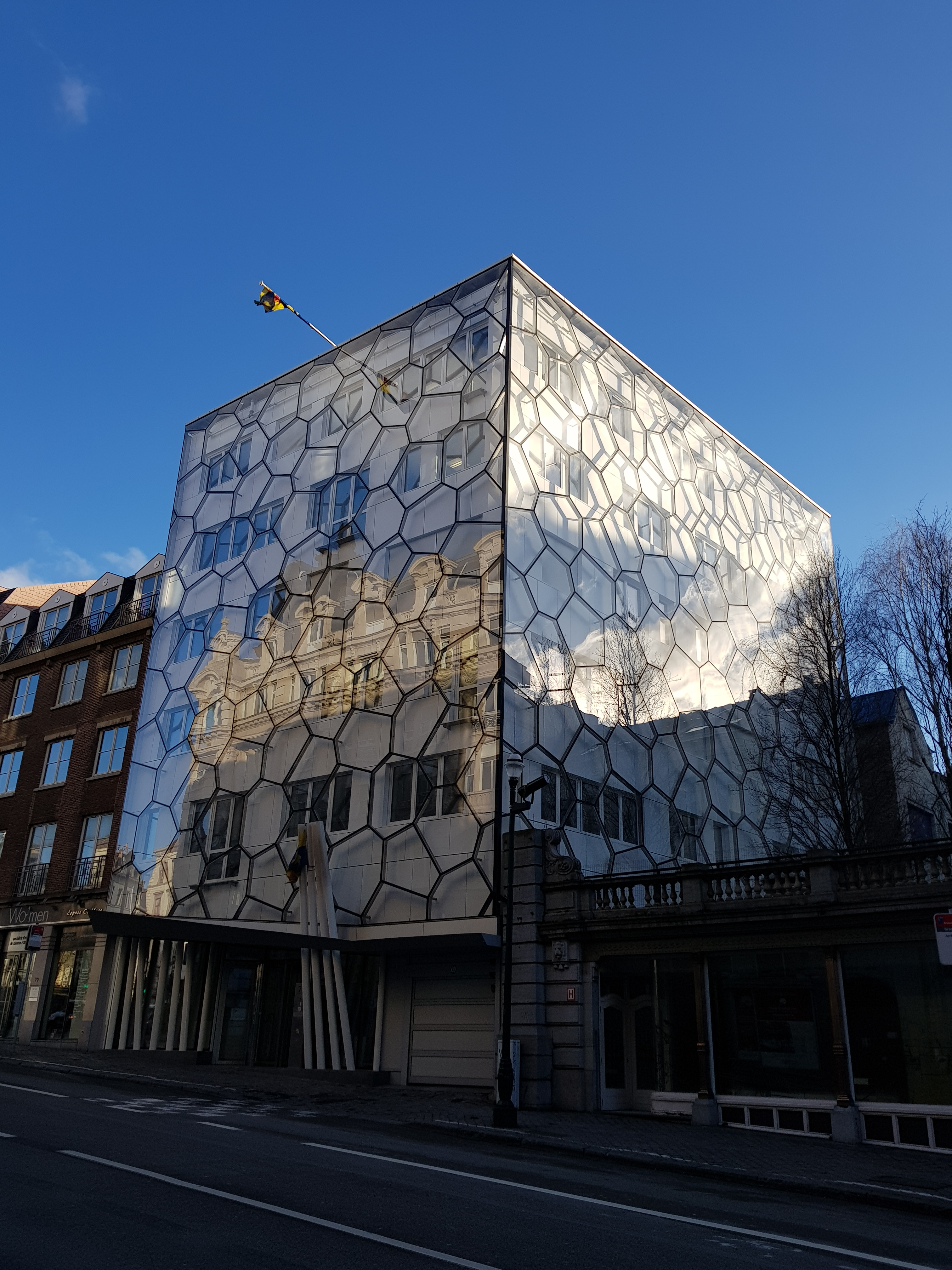 Rue du Lombard 77, Brussels, Belgium